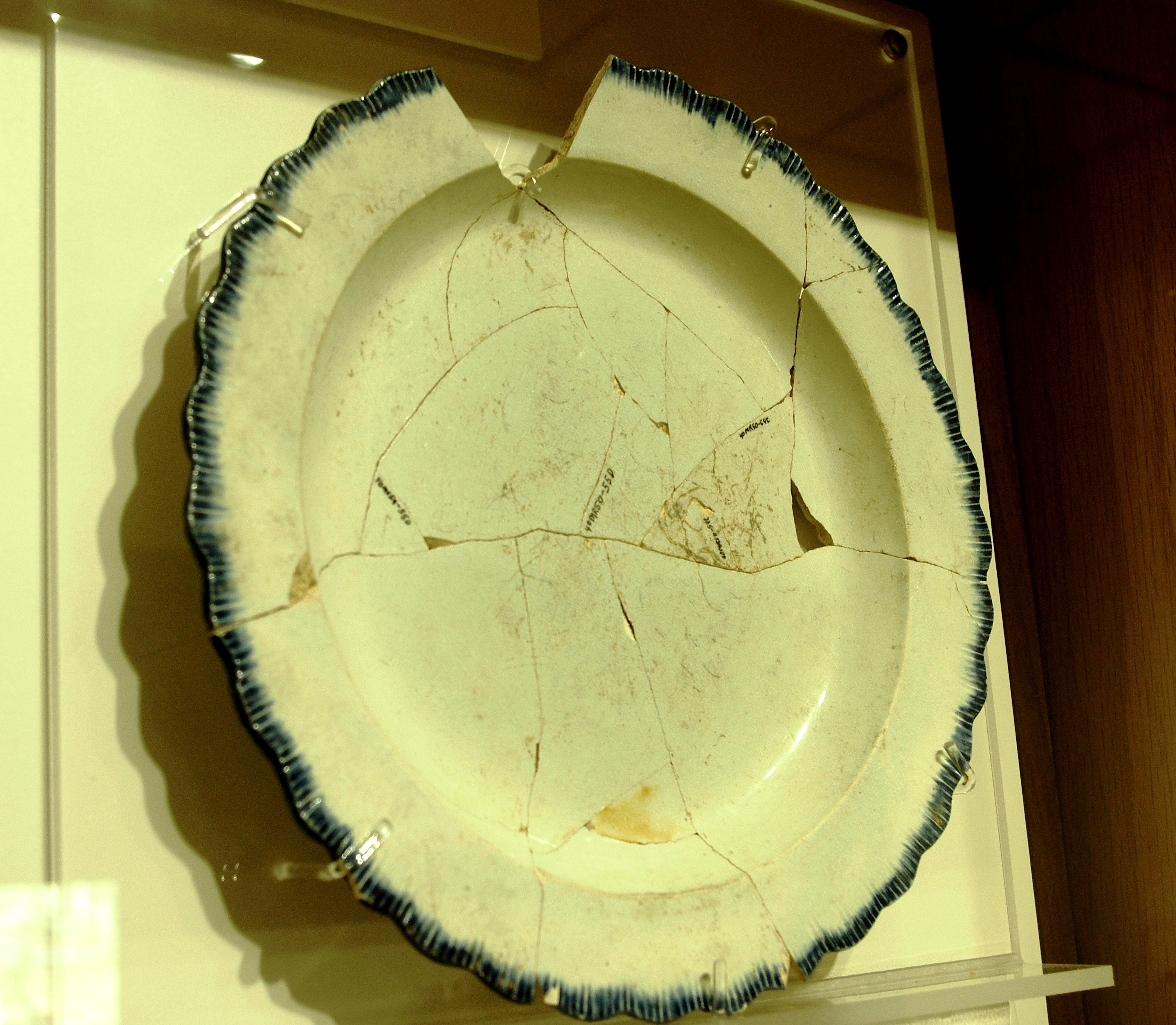 Dish uncovered at the Tellico Blockhouse site in Monroe County, Tennessee, United States, on display at the Fort Loudoun State Park museum.